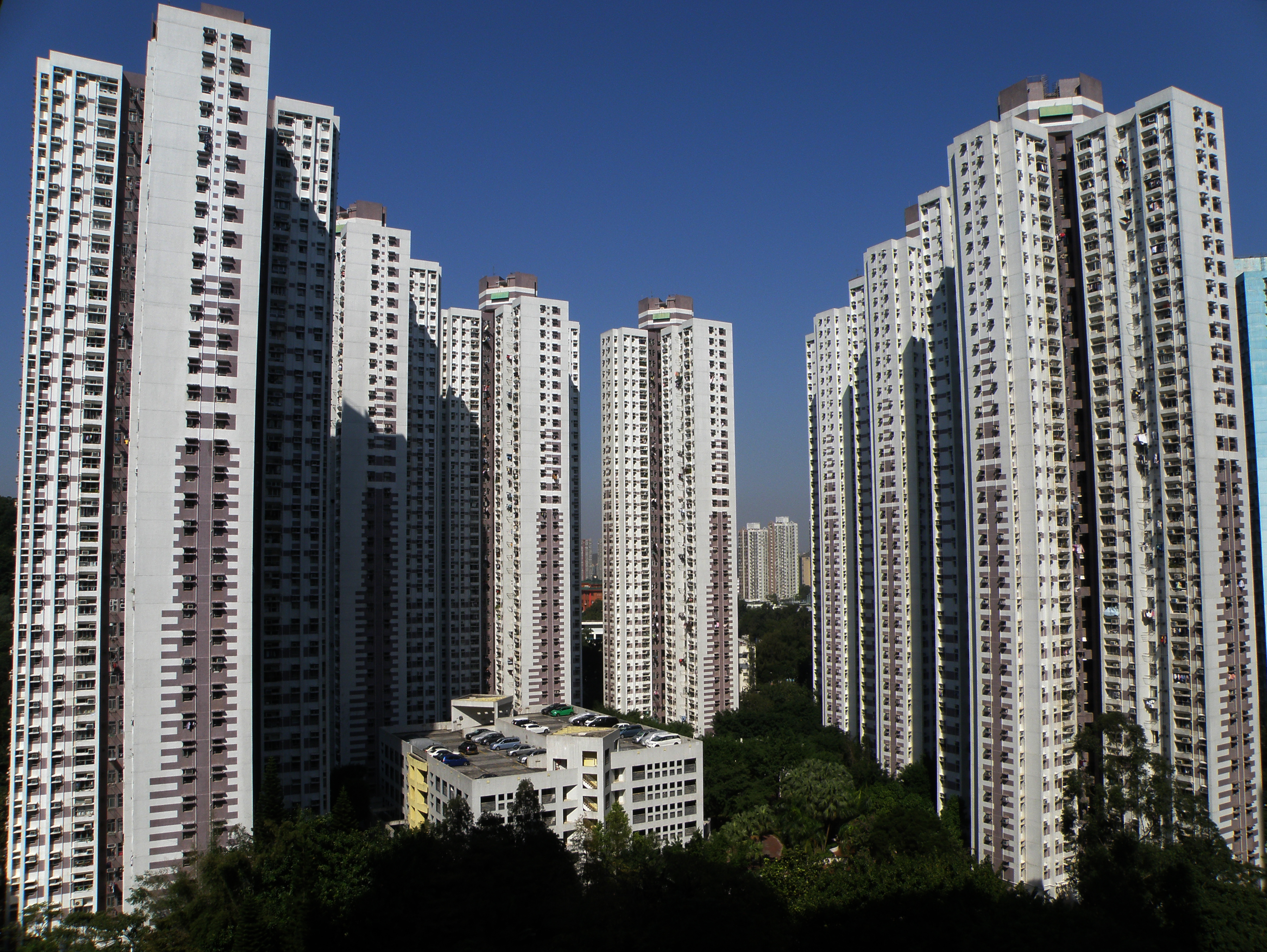 Yan Shing Court in Fanling, Hong Kong.